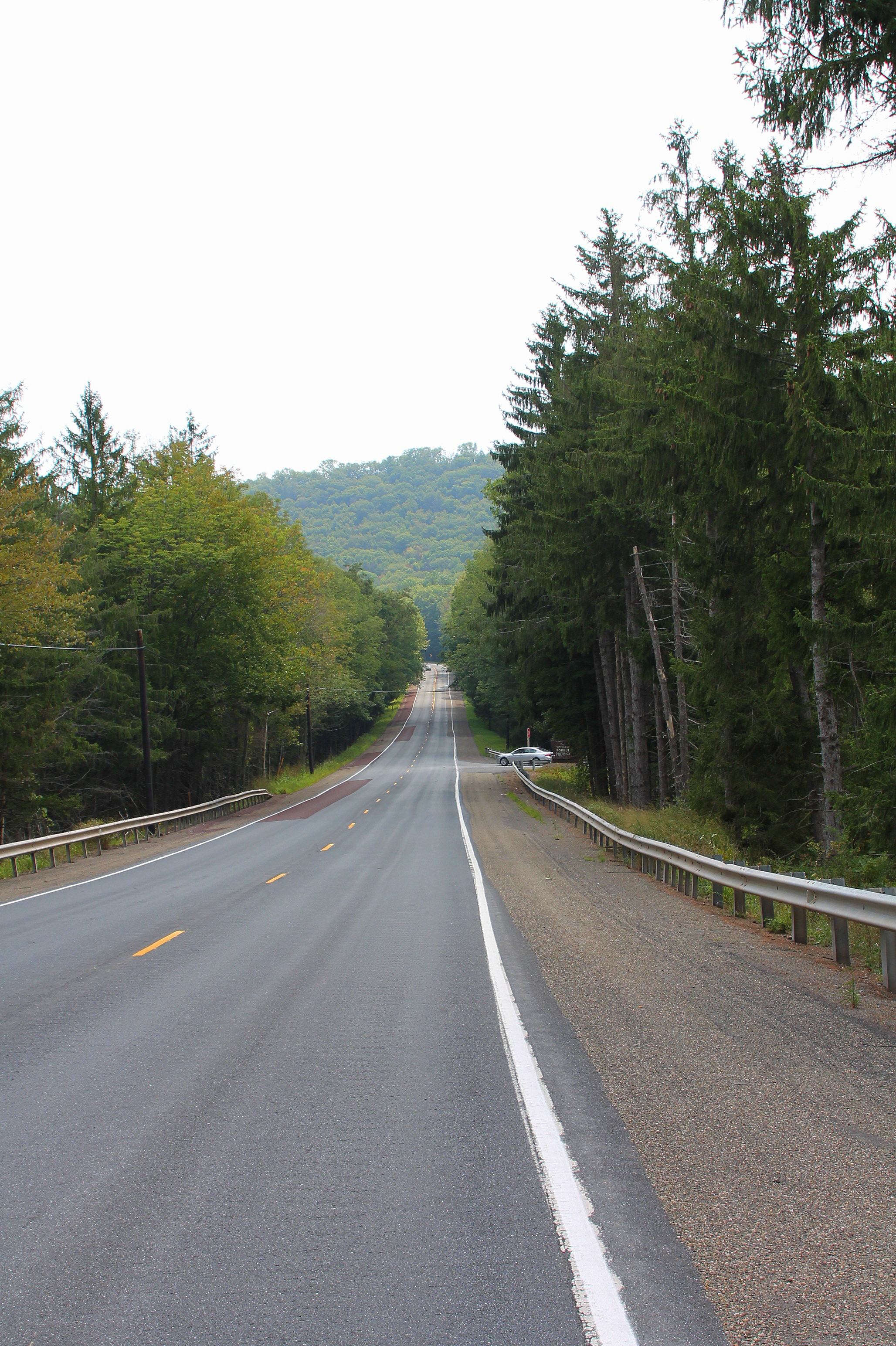 Pennsylvania Route 42 south in Weiser State Forest (Roaring Creek Tract)